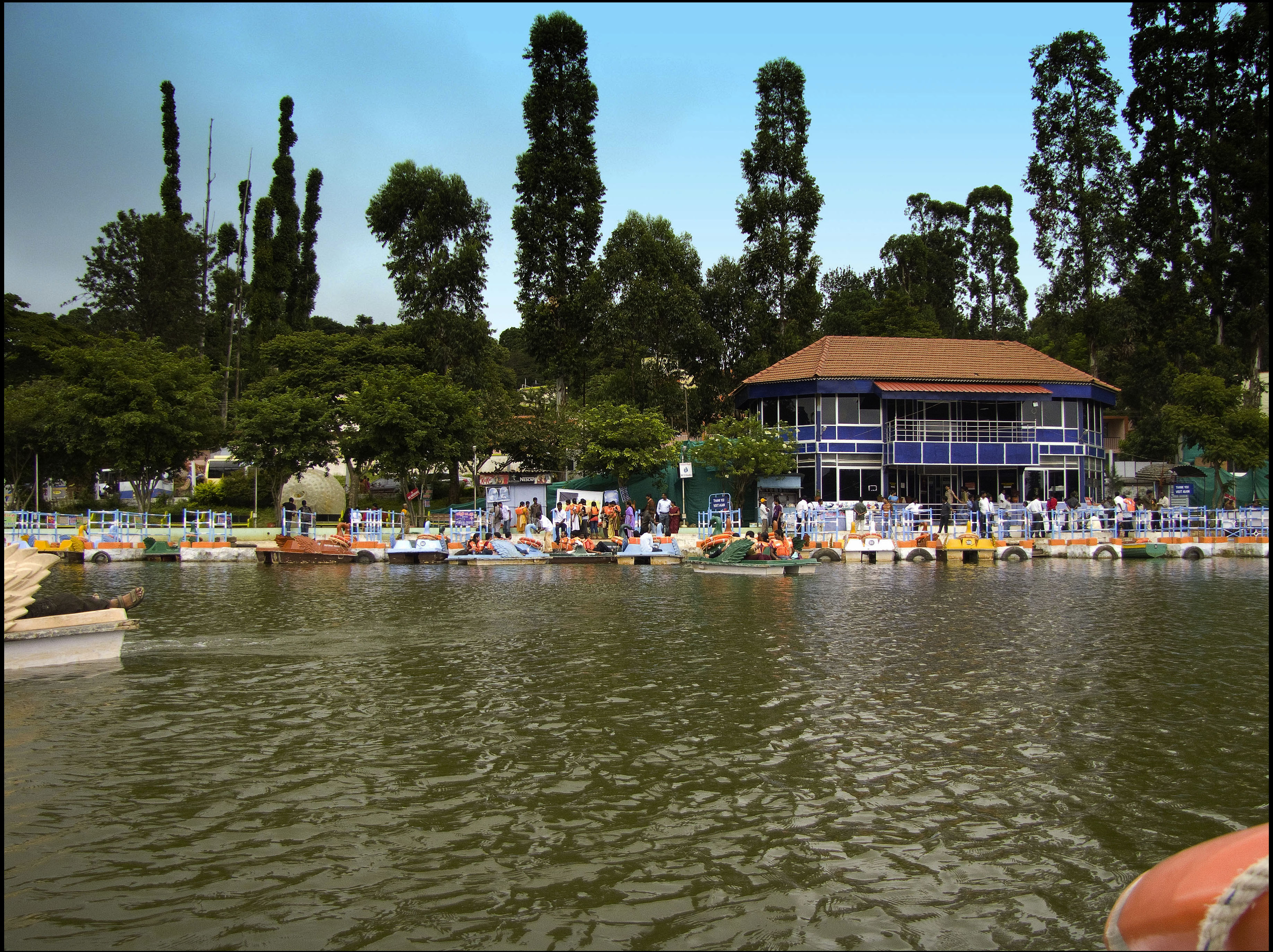 Yercaud Lake - Boat House, Tamilnadu,India